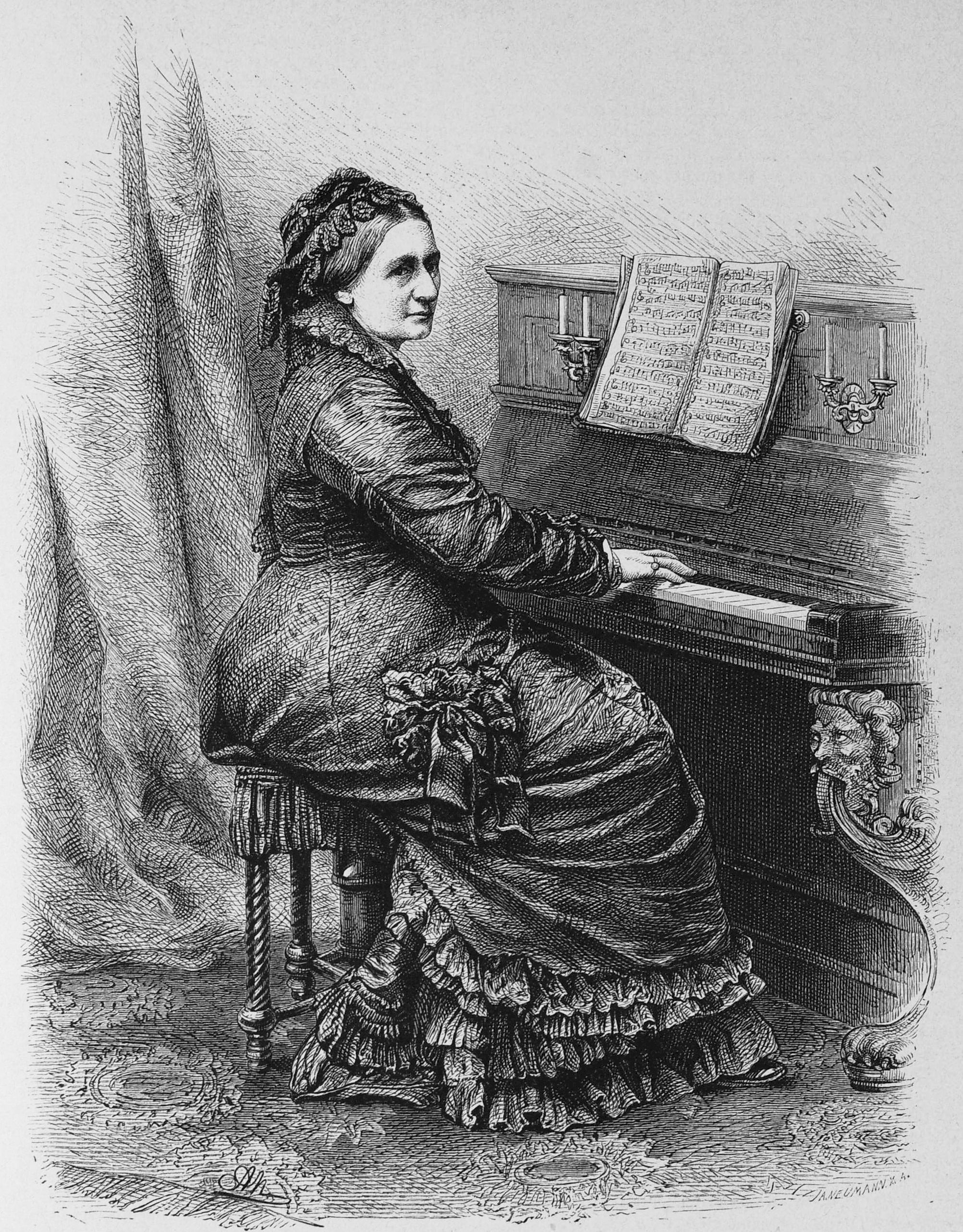 no caption